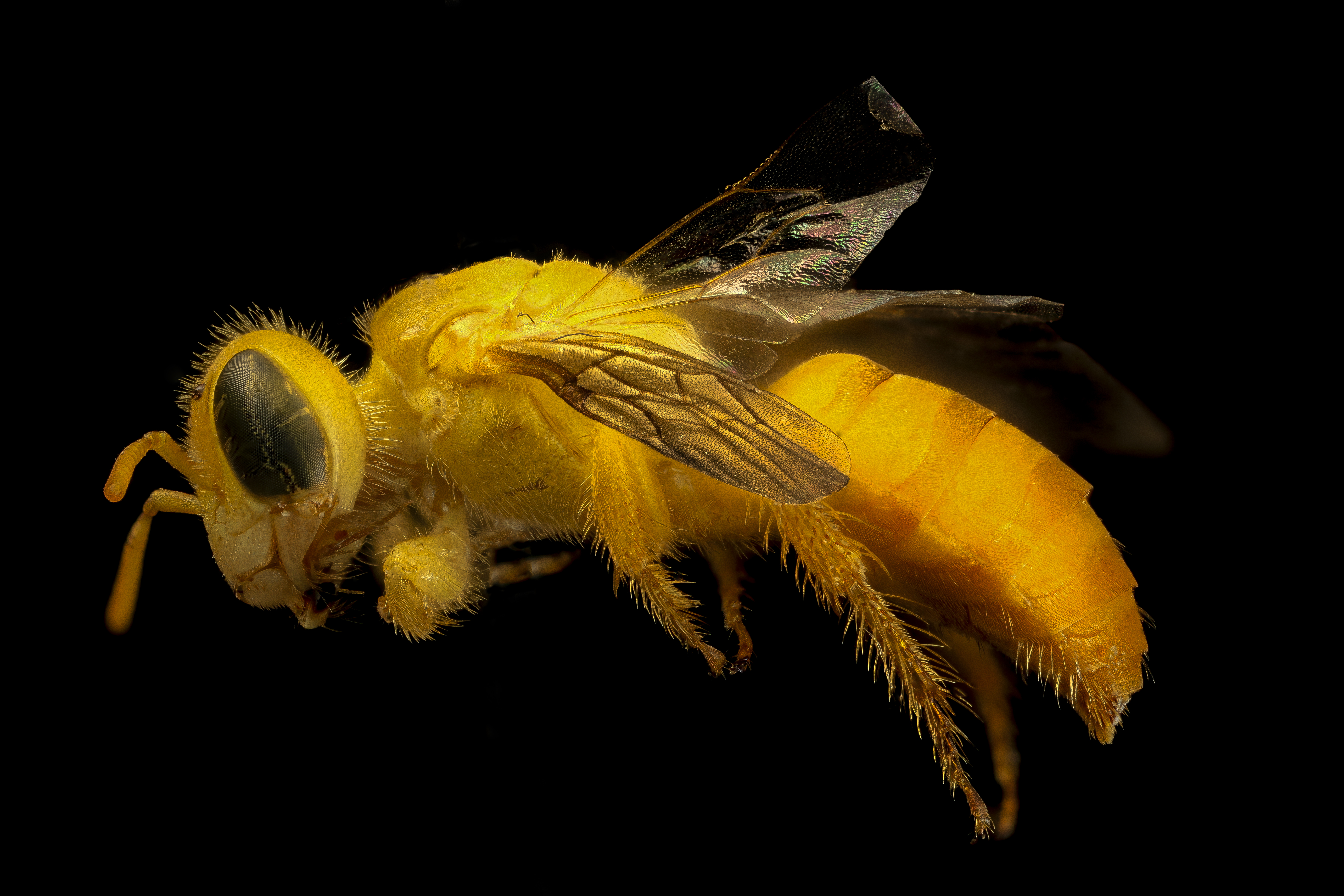 Paraguay! Cactus! This species and its kin feed their young Cactus pollen. One of many species which are pollen specialists in the world. Much to discover and explore in the part of the world, particularly the Chaco region. Specimen from the Packer lab at York University. Canon Mark II 5D, Zerene Stacker, Stackshot Sled, 65mm Canon MP-E 1-5X macro lens, Twin Macro Flash in Styrofoam Cooler, F5.0, ISO 100, Shutter Speed 200, link to a .pdf of our set up is located in our profile